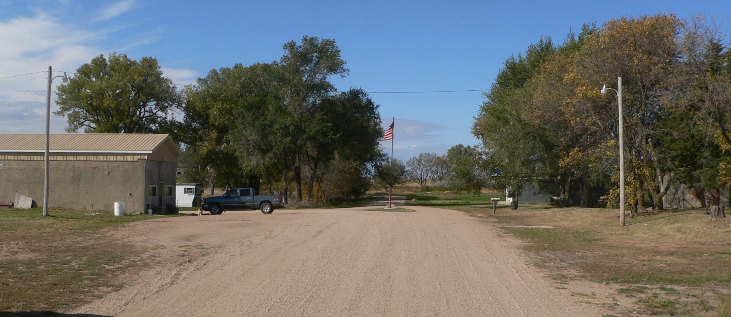 Downtown Gross, Nebraska; camera faces west.